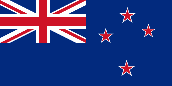 New Zealand flag 300px height, unified for the national flags serie, borders removed, high compression ratio, some color or ratio corrections from